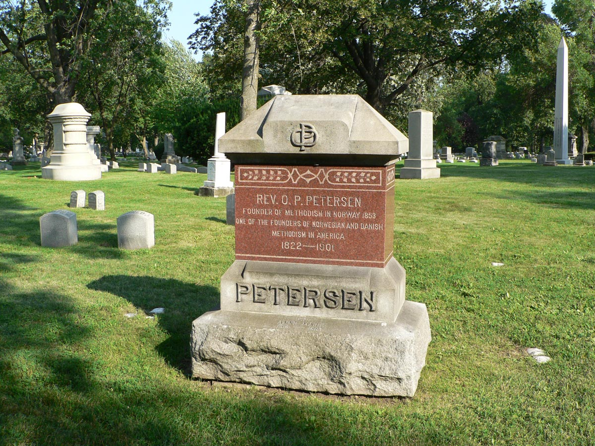 Copyright © 2006 Sulfur Gravestone for Reverend O.P. Petersen, founder of Methodism in Norway. It is located on the grounds of Forest Home Cemetery in Milwaukee, Wisconsin.